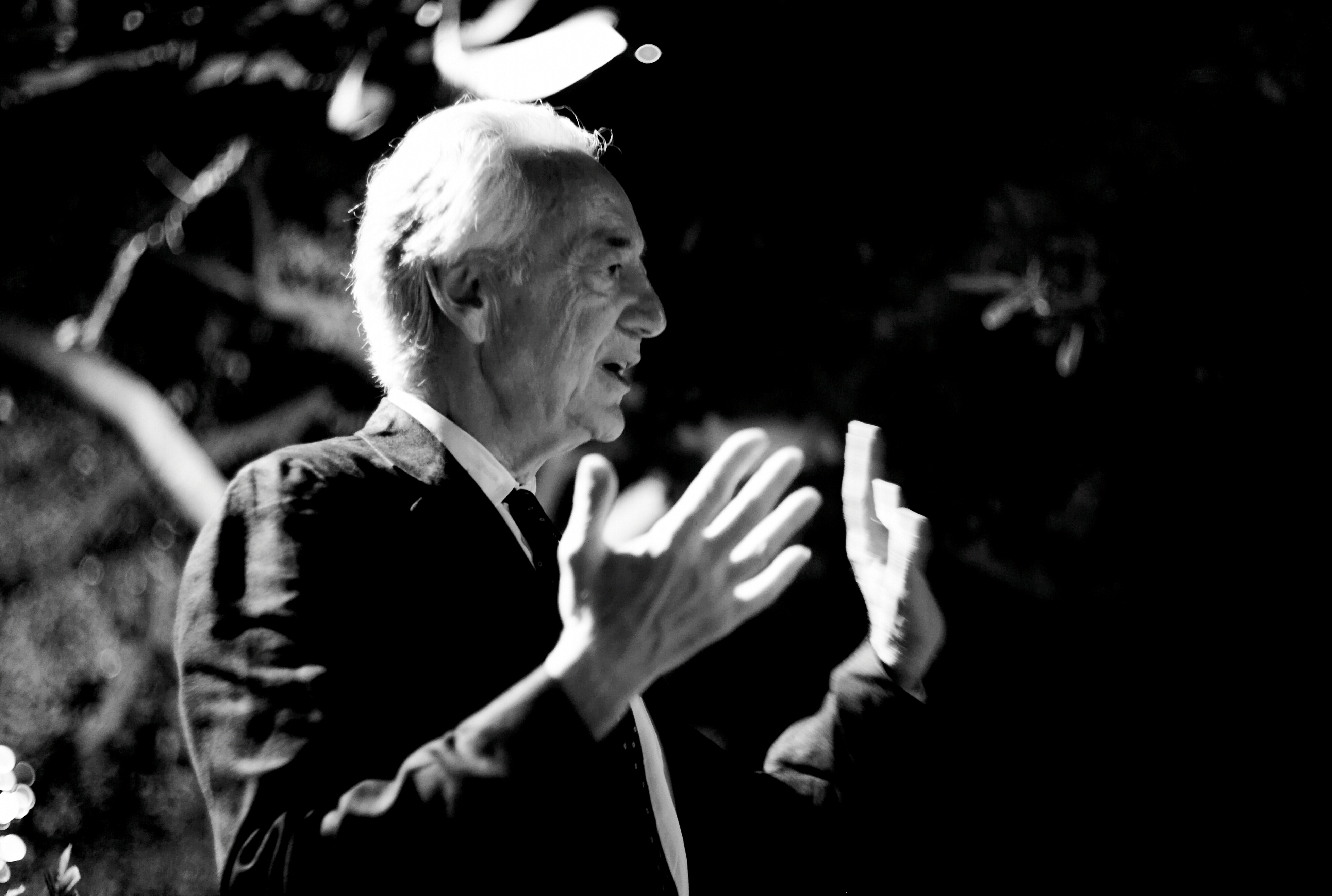 Charles Nesson speaking at the iCommons iSummit07 in Dubrovnik